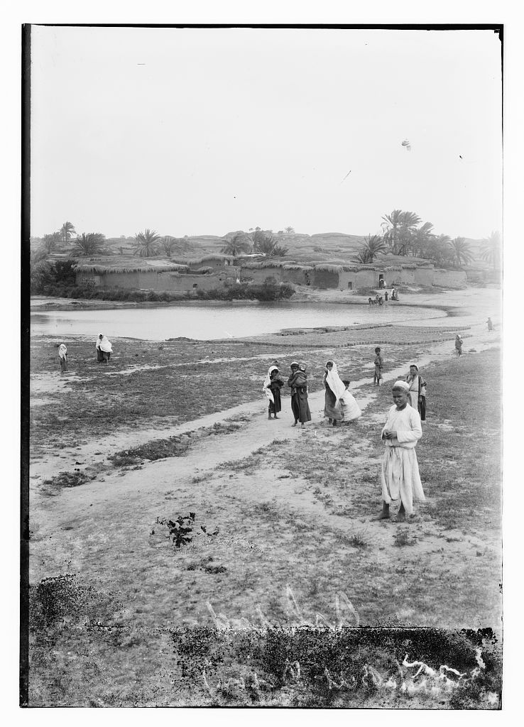 Isdud